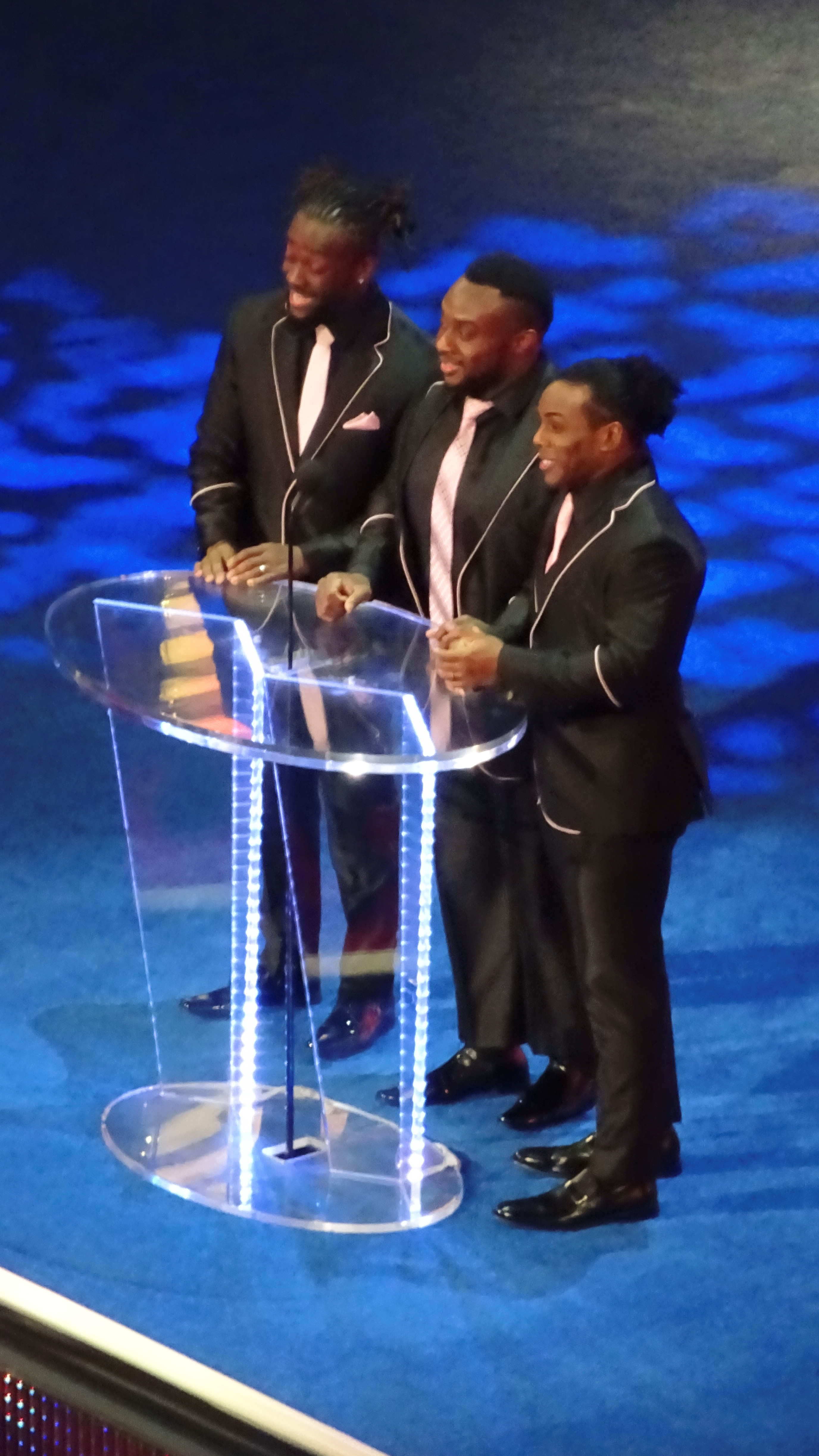 Le WWE Hall of Fame (anciennement WWF Hall of Fame) est une institution qui honore d'anciens employes de la World Wrestling Entertainment (anciennement World Wrestling Federation) et d'autres figures qui ont contribue au catch et au divertissement sportif en general. The Fabulous Freebrids (Michael Hayes, Terry Gordy, Buddy Roberts & Jimmy Garvin) Introduce By : Kofi Kingston, Big E Langston & Xavier Woods Deux fois WCW World Tag Team Championship, deux fois WCW United States Tag Team Championship et une fois WCW 6-Man Tag Team Championship.